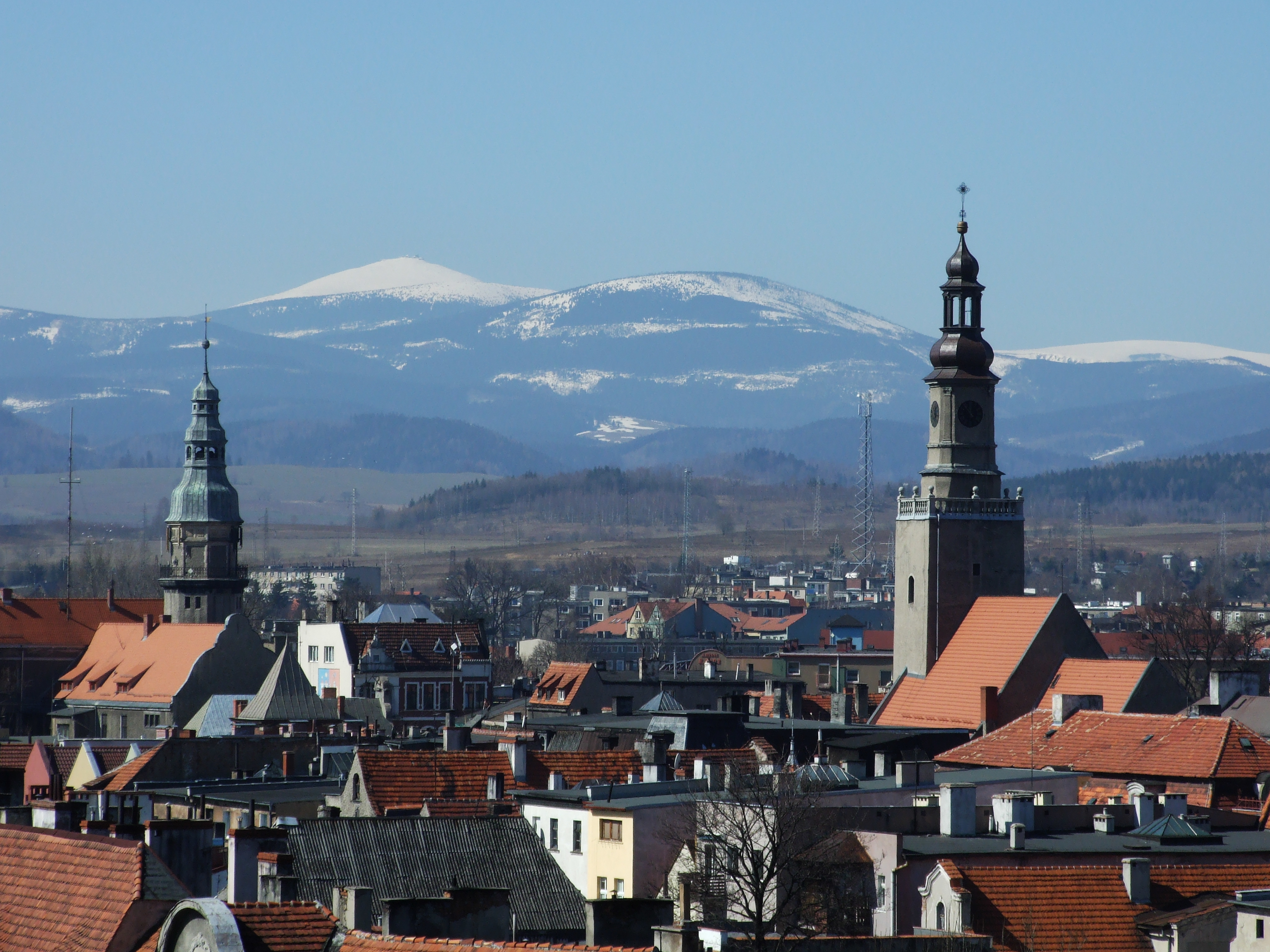 Kamienna Góra seen from Zamkowa Hill.